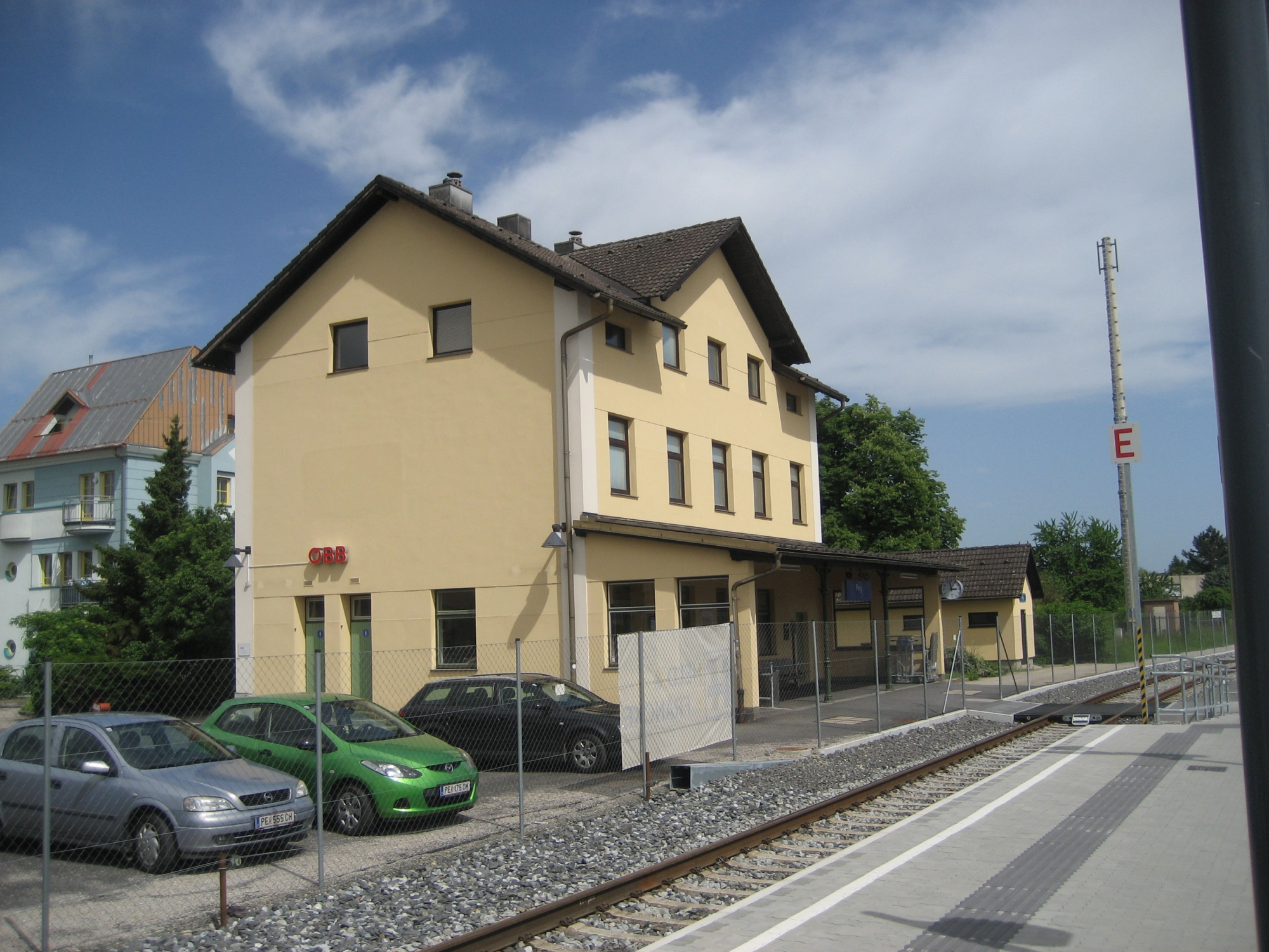 Perg train station in Upper Austria